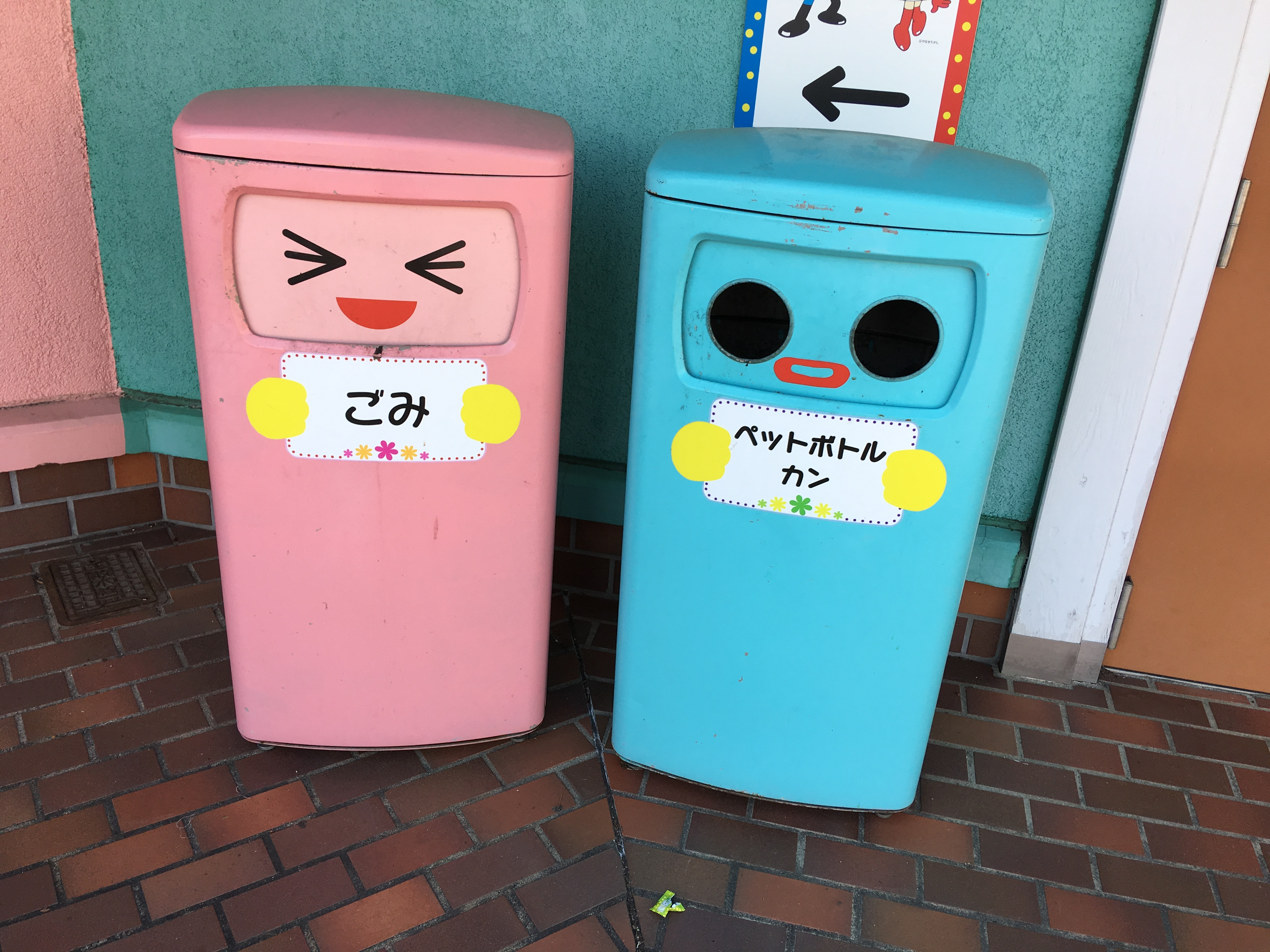 Japan 2017